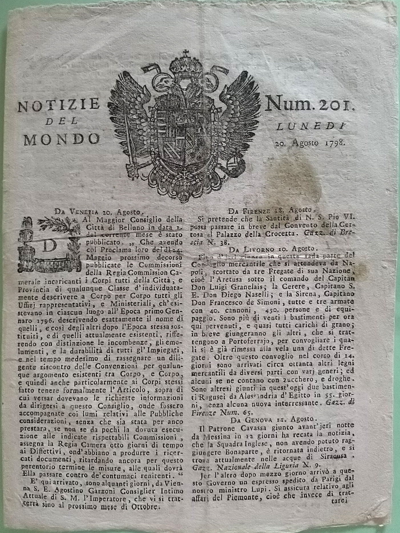 Newspaper "Notizie del Mondo" of Venice issue of 20 August 1798